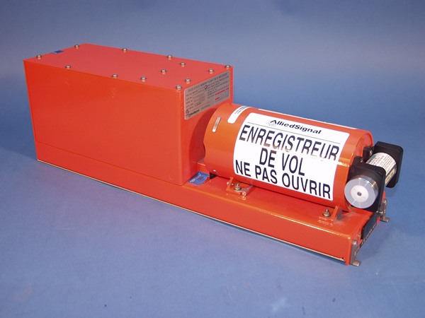 The FDR onboard the aircraft records many different operating conditions of the flight. By regulation, newly manufactured aircraft must monitor at least eighty-eight important parameters such as time, altitude, airspeed, heading, and aircraft attitude. In addition, some FDRs can record the status of more than 1,000 other in-flight characteristics that can aid in the investigation. The items monitored can be anything from flap position to auto-pilot mode or even smoke alarms.